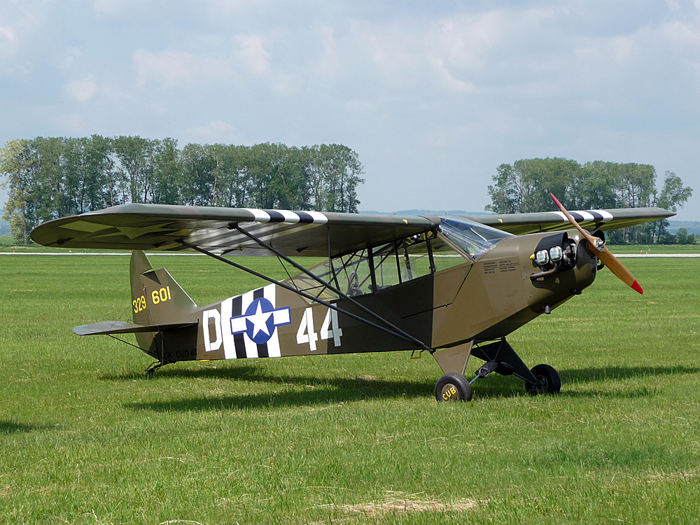 Piper J-3C-65 Cub, Replica, OK-CUD 44